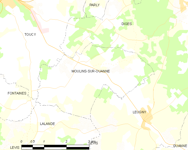 Map of French municipality Moulins-sur-Ouanne